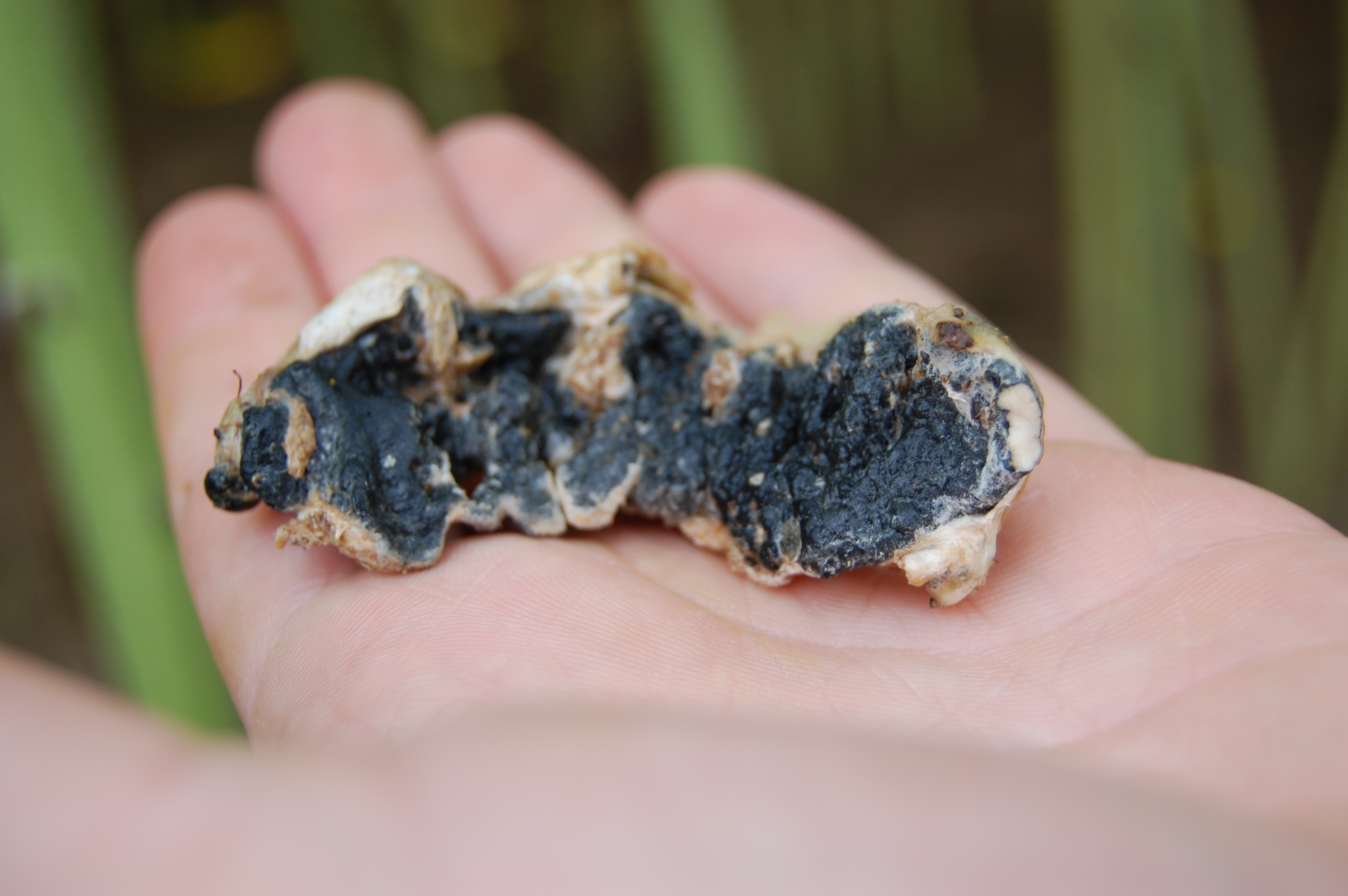 Large sclerotia of S. sclerotiorum